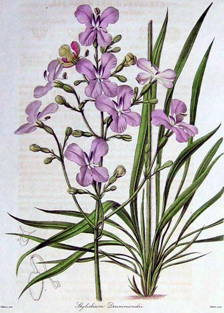 Botanical print of Stylidium drummondii (now Stylidium affine) from The Botanist (1837, Volume 1) by Maund, B. and J.S. Henslow.